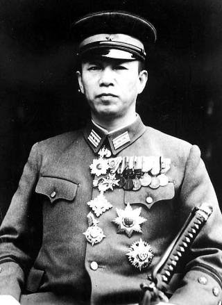 Colonel Takushiro Hattori, Chief of Operations Planning Staffs, Imperial Japanese Army, July 1941 through February 1945